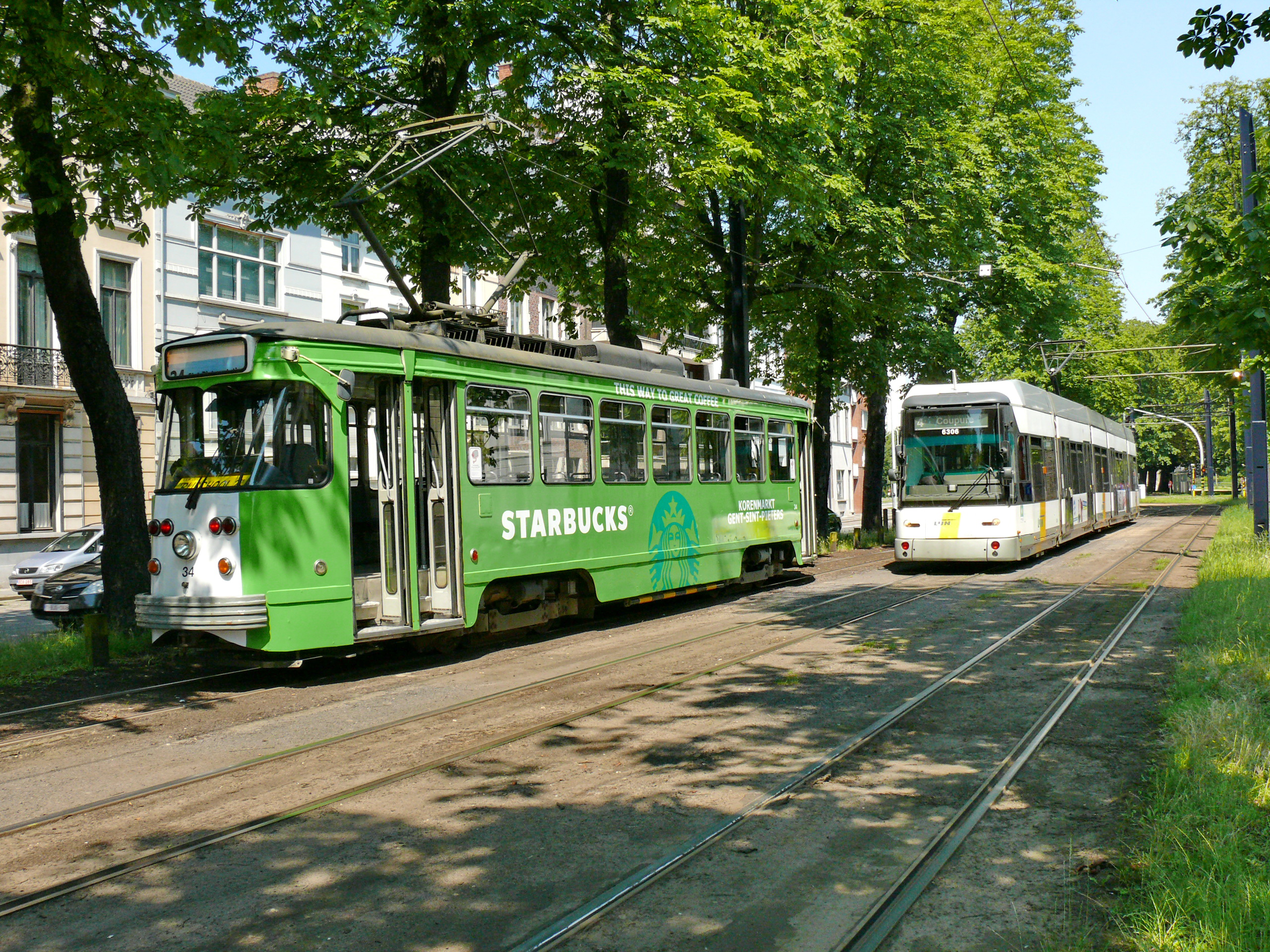 Ghent tramway - PCC car 34 (or 6034) in the siding at Rabot station, being overtaken by Hermelijn car 6306 train on line 4